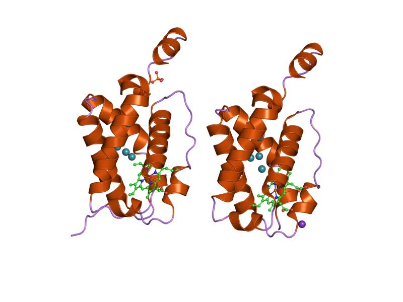 Cartoon representation of the molecular structure of protein registered with 1s56 code.